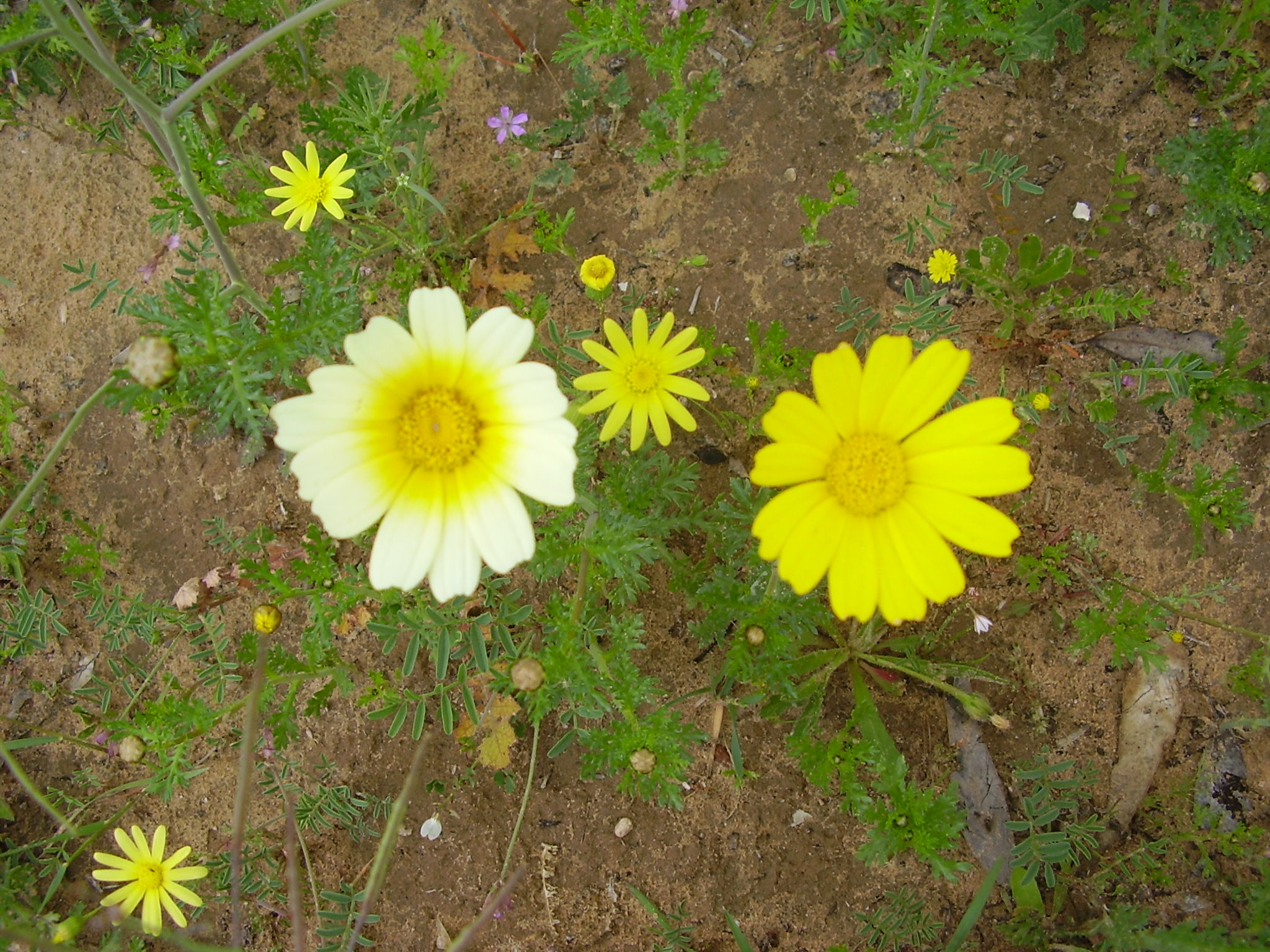 White Chrysanthemum in the Negev